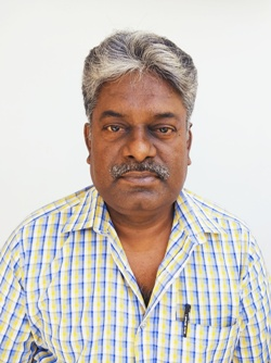 Ravisubramaniyan ரவிசுப்பிரமணியன்